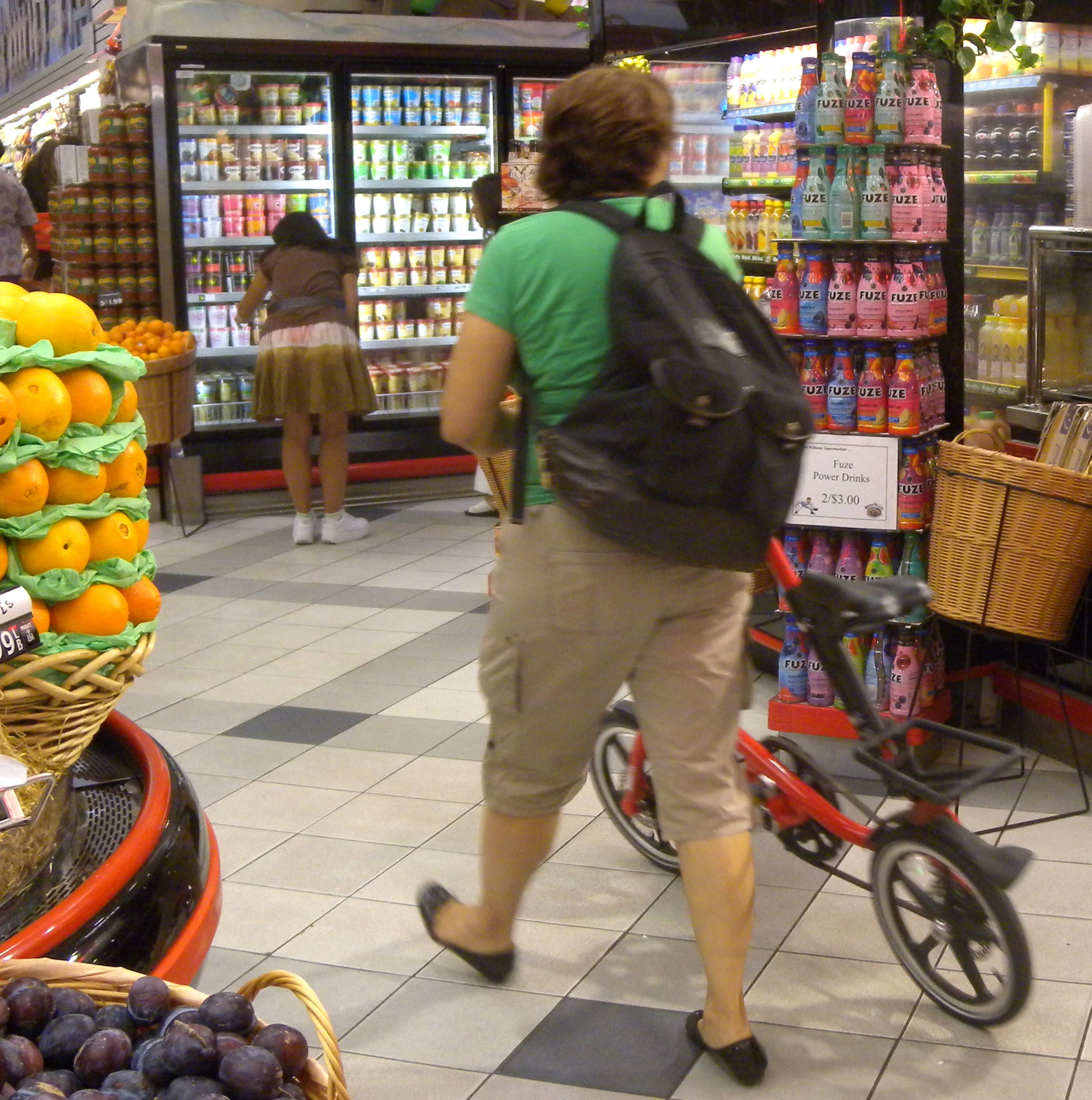 Looking northeast inside Morton Williams store (which closed in late 2012) at a Strida seeking groceries.